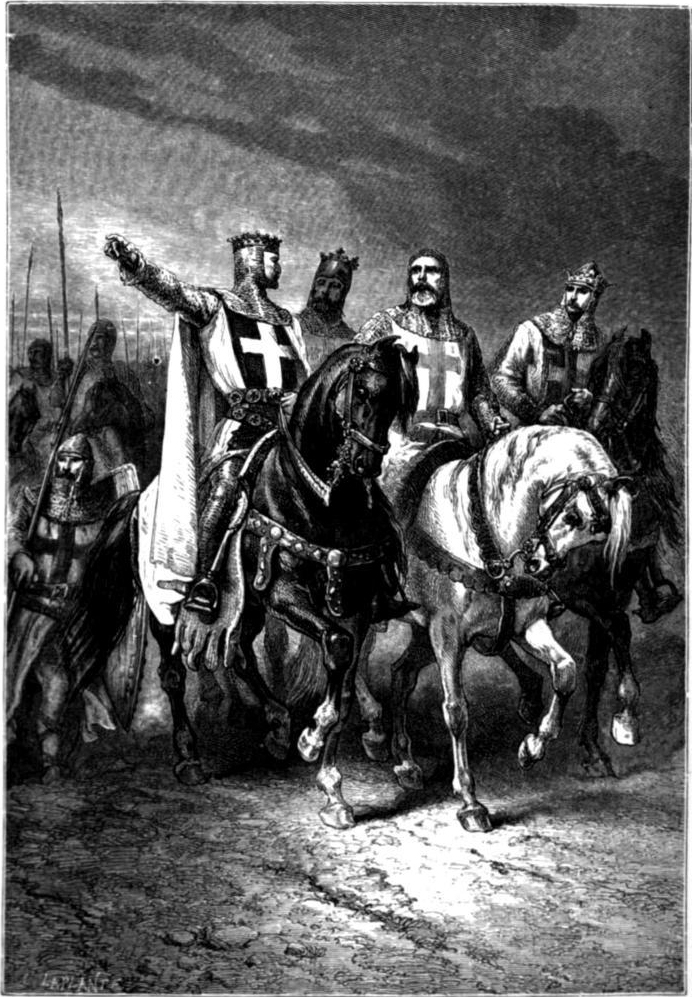 The Four Leaders of the First Crusade (1095)